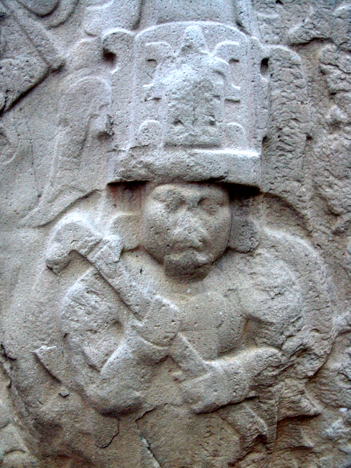 Olmec king or chief. Stone stele from La Venta